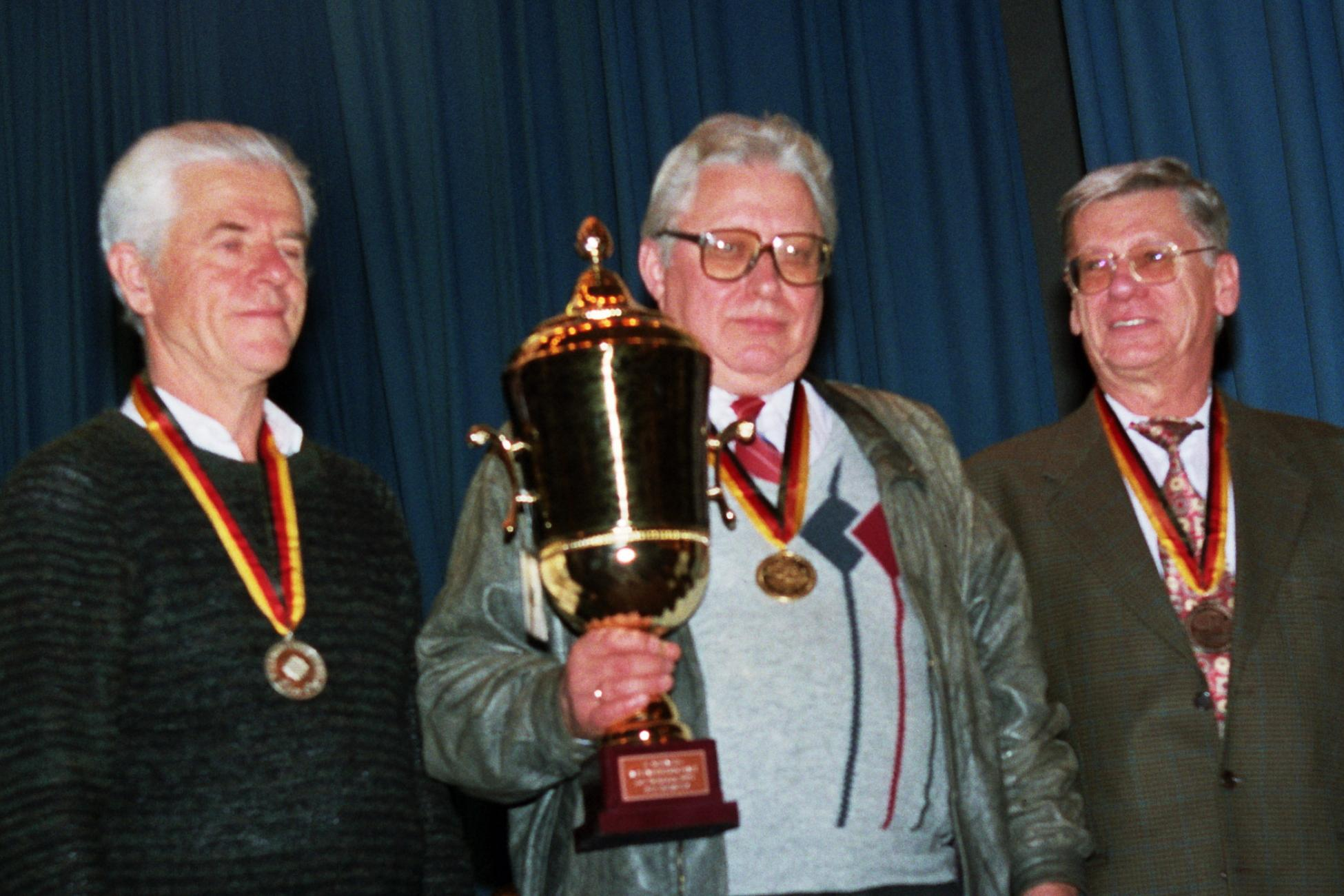 The first three: Katalymov, Vasiukov and Baumgartner, Senior Chess World Championship 1995 at Bad Liebenzell, Photographer Gerhard Hund.